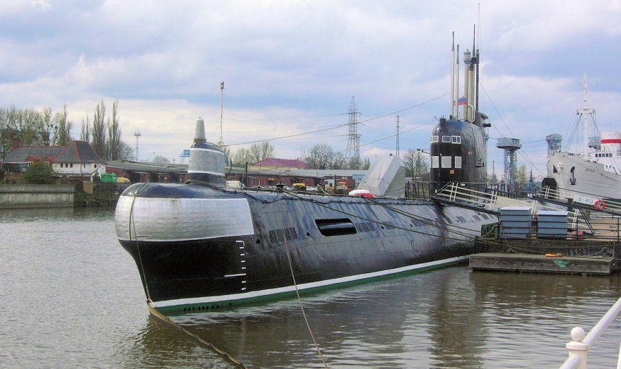 Submarine B-413 in Museum of the World Ocean in Kaliningrad.